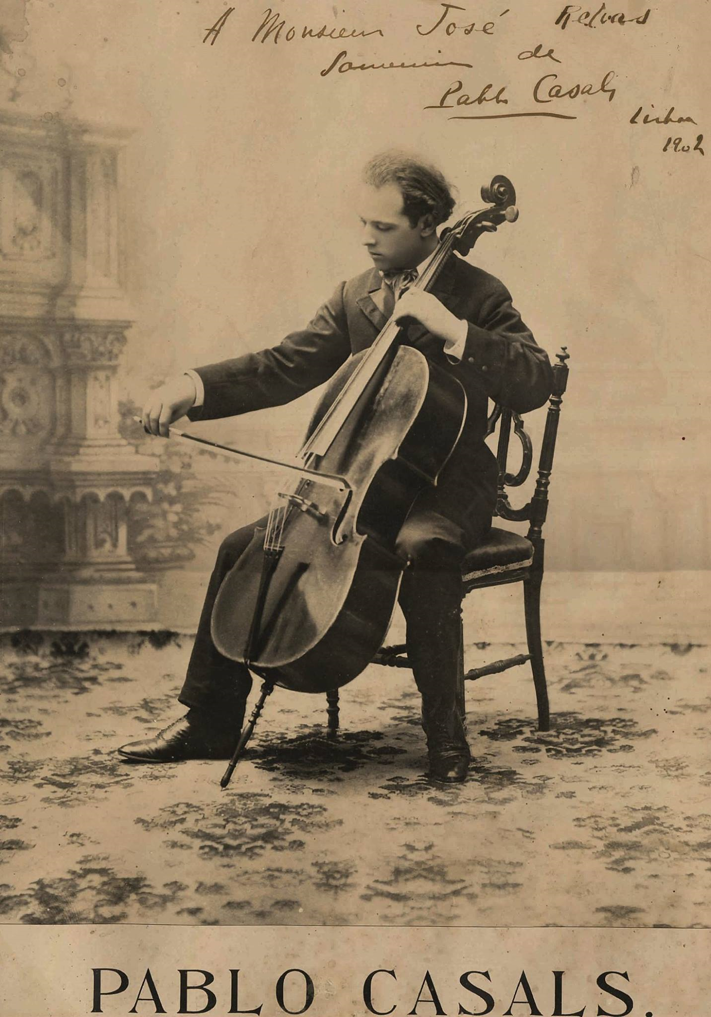 Photograph of Pablo Casals, with autograph dedication to José Relvas, dated 1902